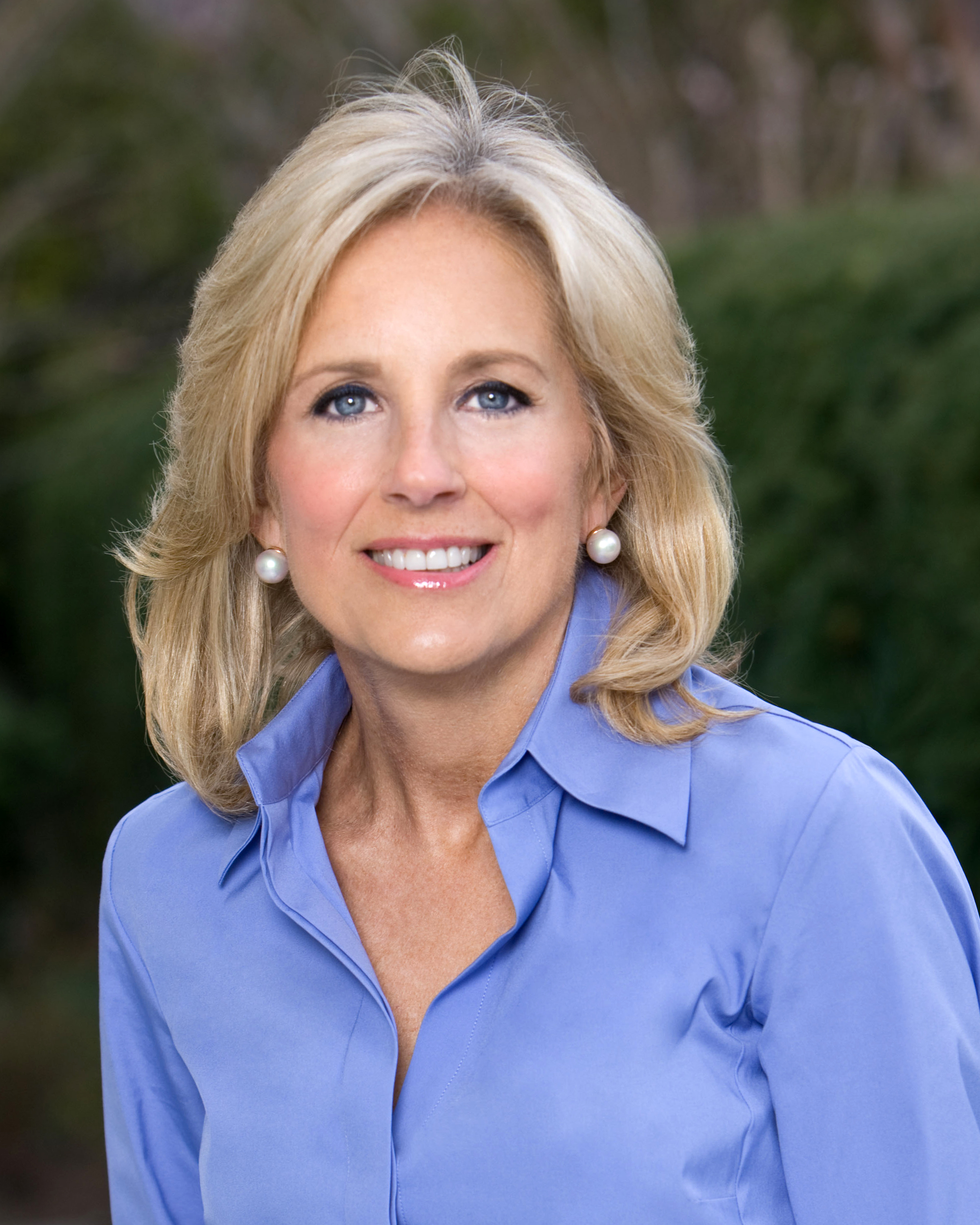 Official portrait of the Second Lady of the United States Jill Biden.